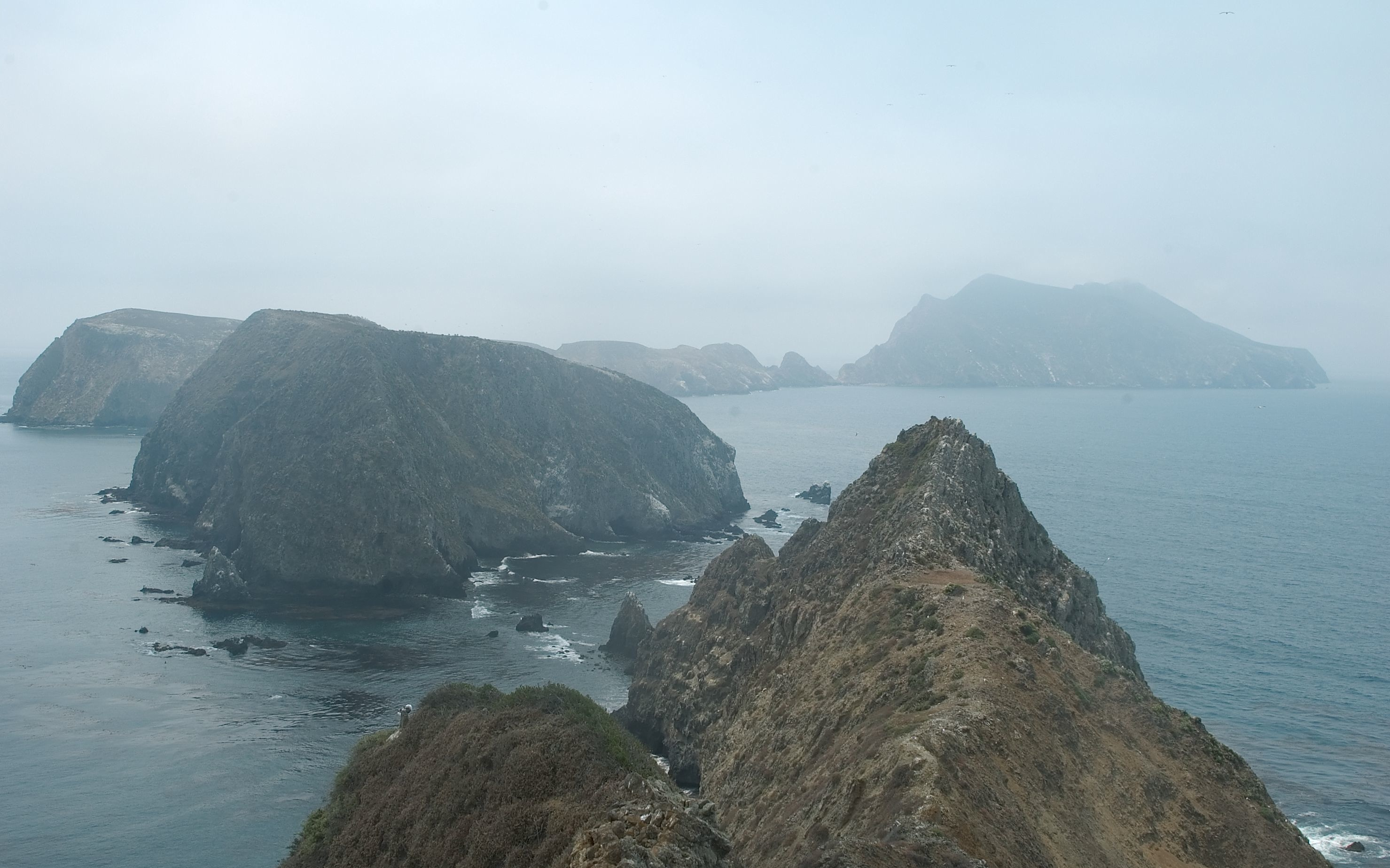 West Anacapa Island, taken from East Anacapa.